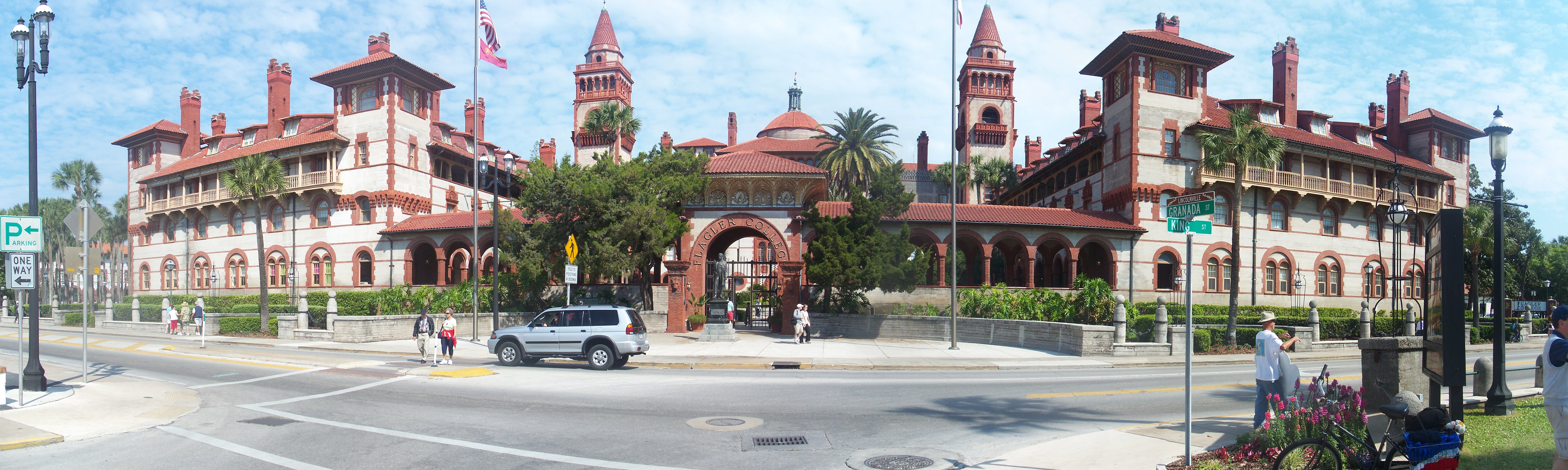 St. Augustine, Florida: Ponce de León Hotel, a National Historic Landmark, now part of Flagler College. Panorama view.